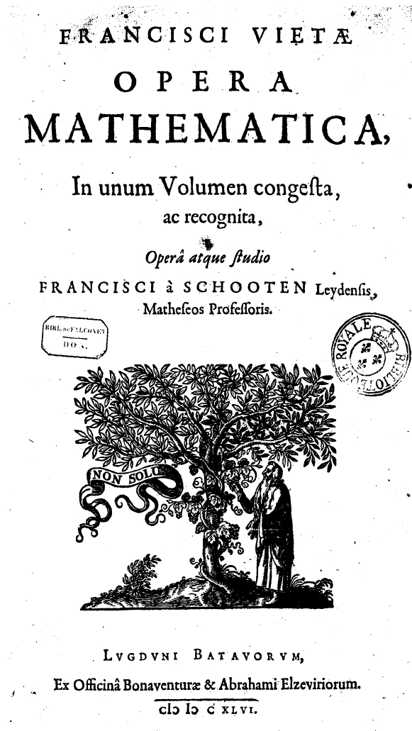 Title page of Opera Mathematica by French mathematician François Viète (1606-1671). Publié par Bonaventure et Abraham Elzevier, Leyde, 1646.